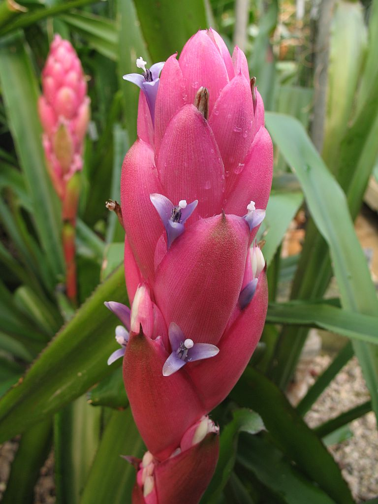 Portea kermesina in cultivation at the Botanical Garden of Heidelberg, Germany.